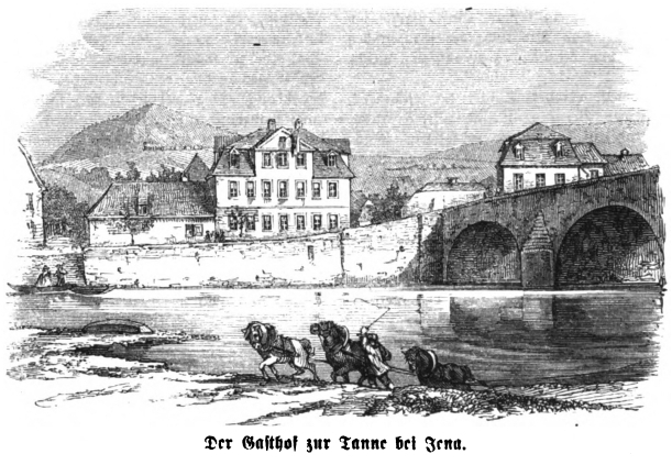 caption: "Der Gasthof zur Tanne bei Jena."